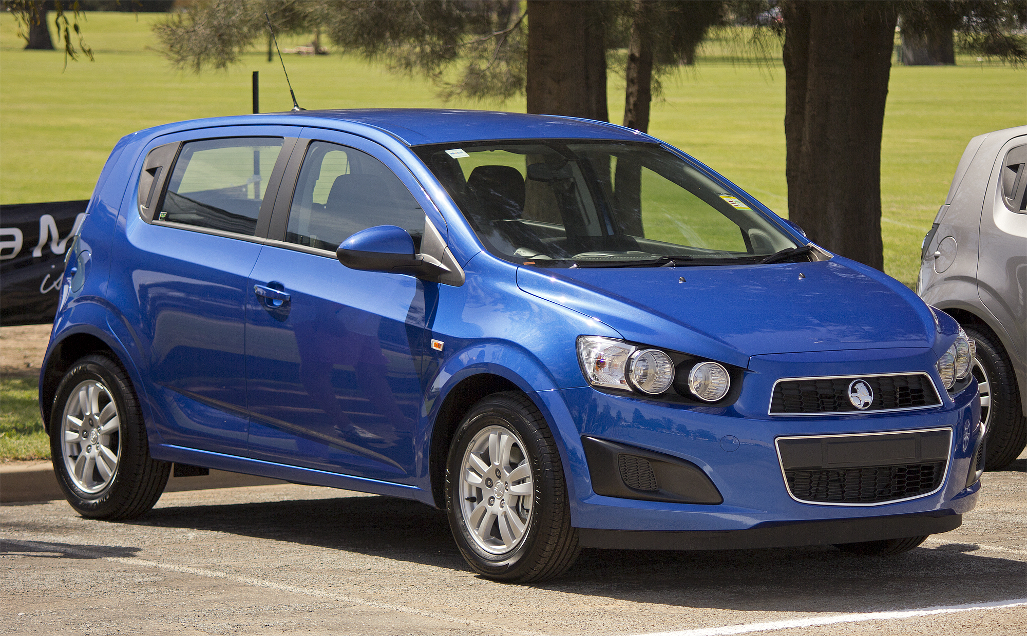 2011 Holden TM Barina hatchback photographed in Wagga Wagga, New South Wales.